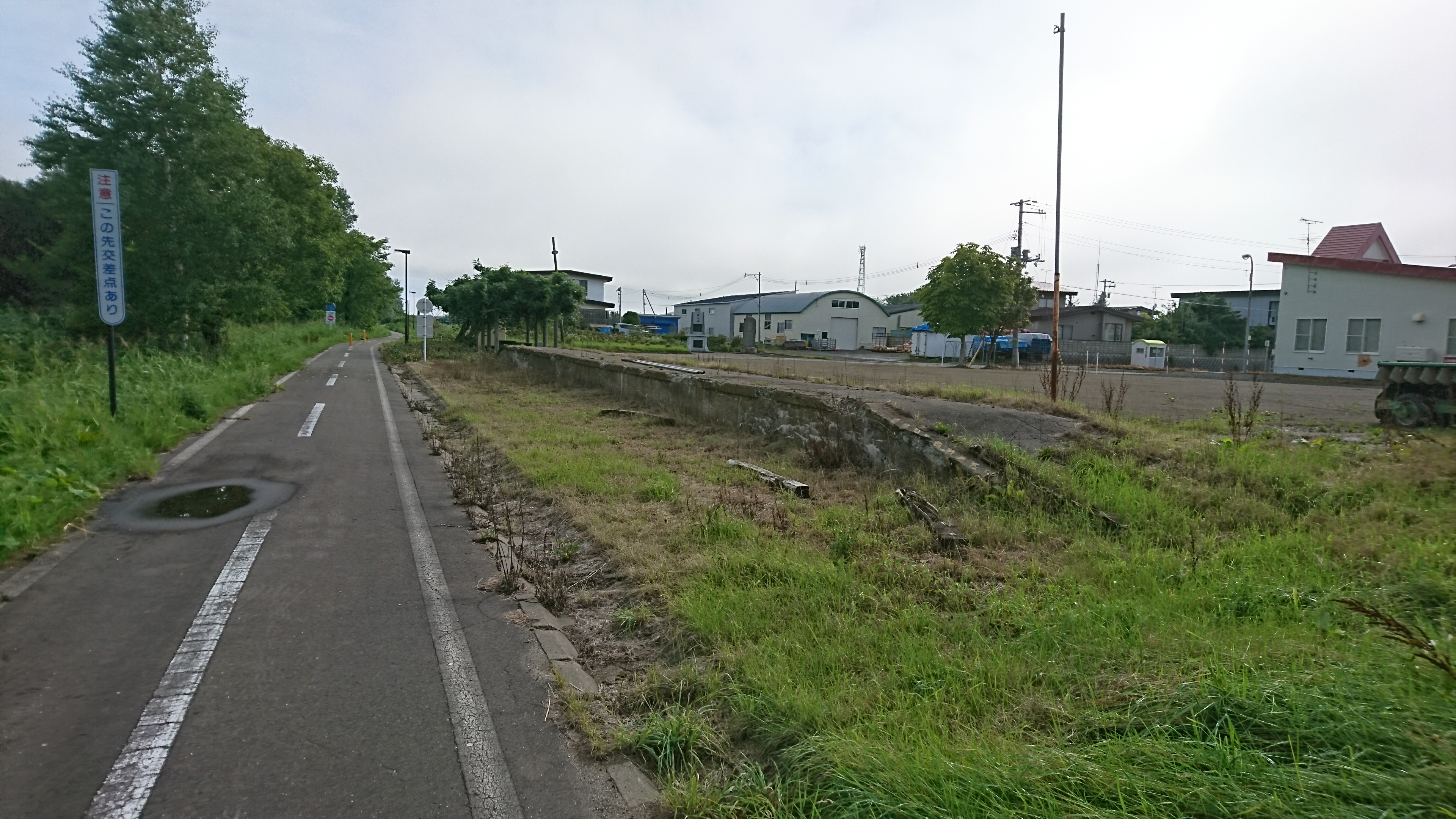 Okhotsk cyclyngroad at notori